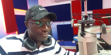 fred obachi machokaa, a legendary kenyan radio presenter